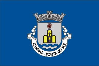 Flag of Parish of Canhas (Municipality of Ponta do Sol - Madeira Autonomous Region - Portuguese Republic - European Union)